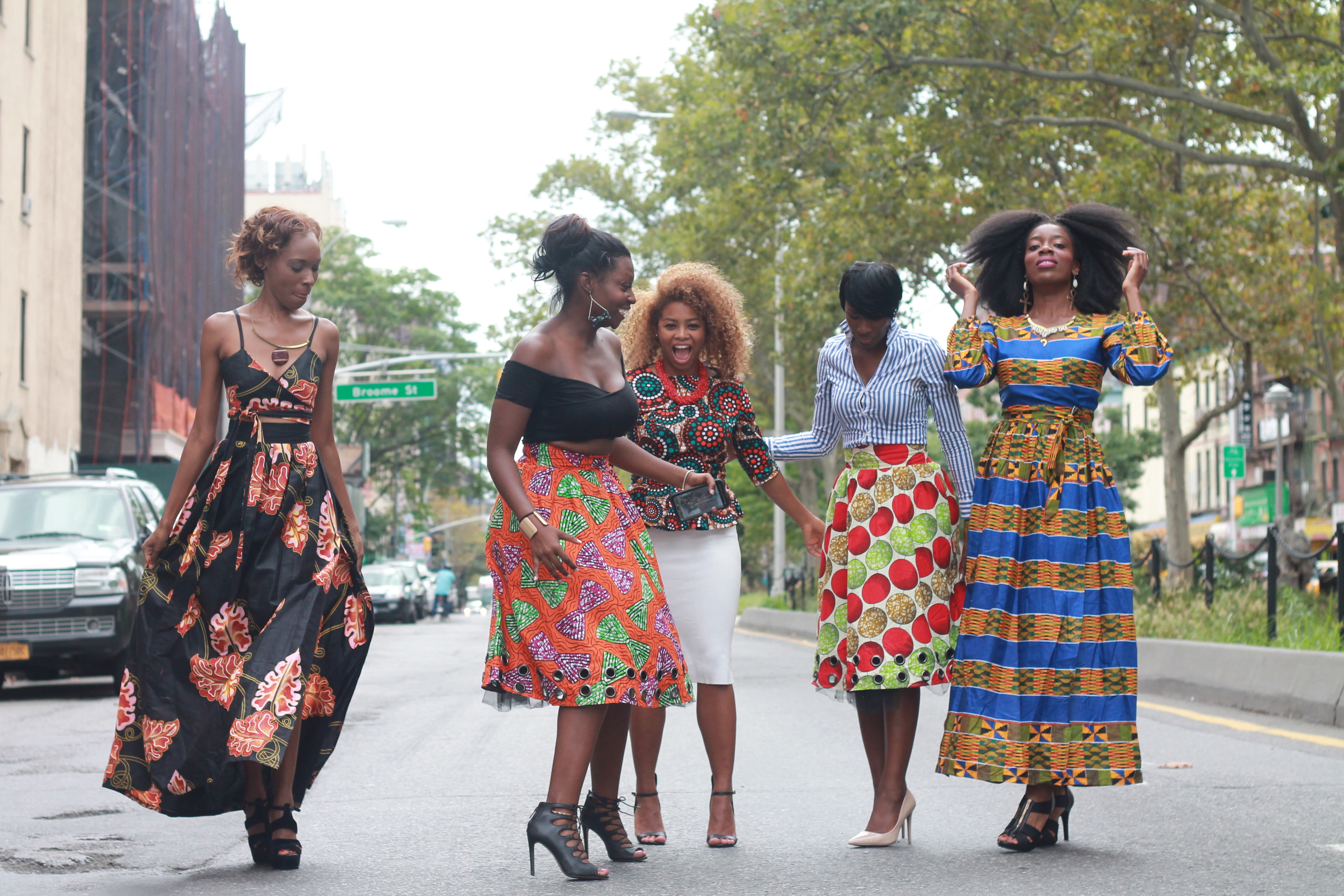 No or incorrect country code indicated in the Wiki Loves Africa 2015 country template